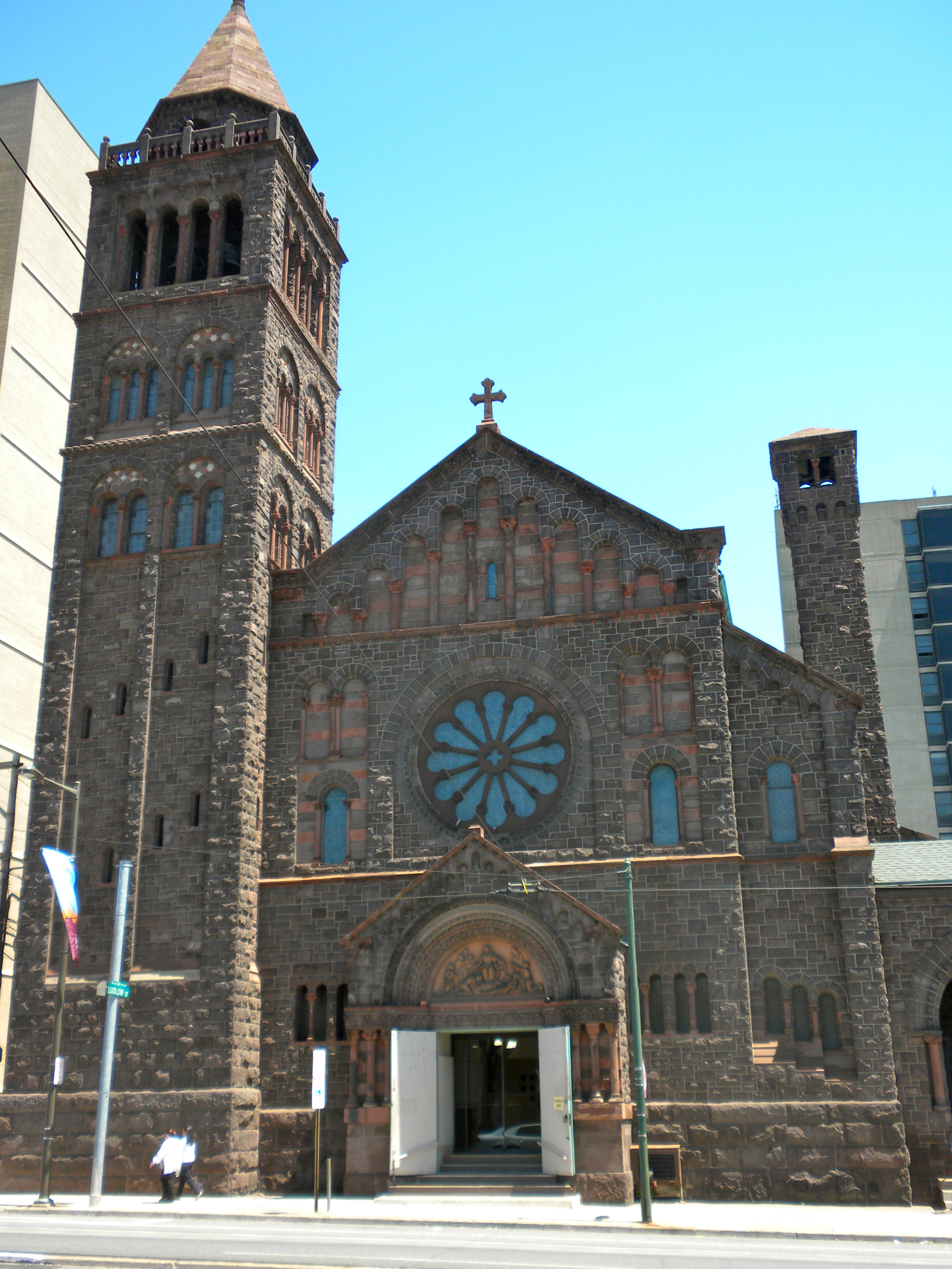 Episcopal Cathedral of Pennsylvania, formerly known as Protestant Episcopal Church of the Saviour on the NRHP since August 1, 1979. At Ludlow Street and 3723–3725 Chestnut Street in University City neighborhood of west Philadelphia, PA Charles M. Burns, architect (1889, rebuilt after 1902 fire).